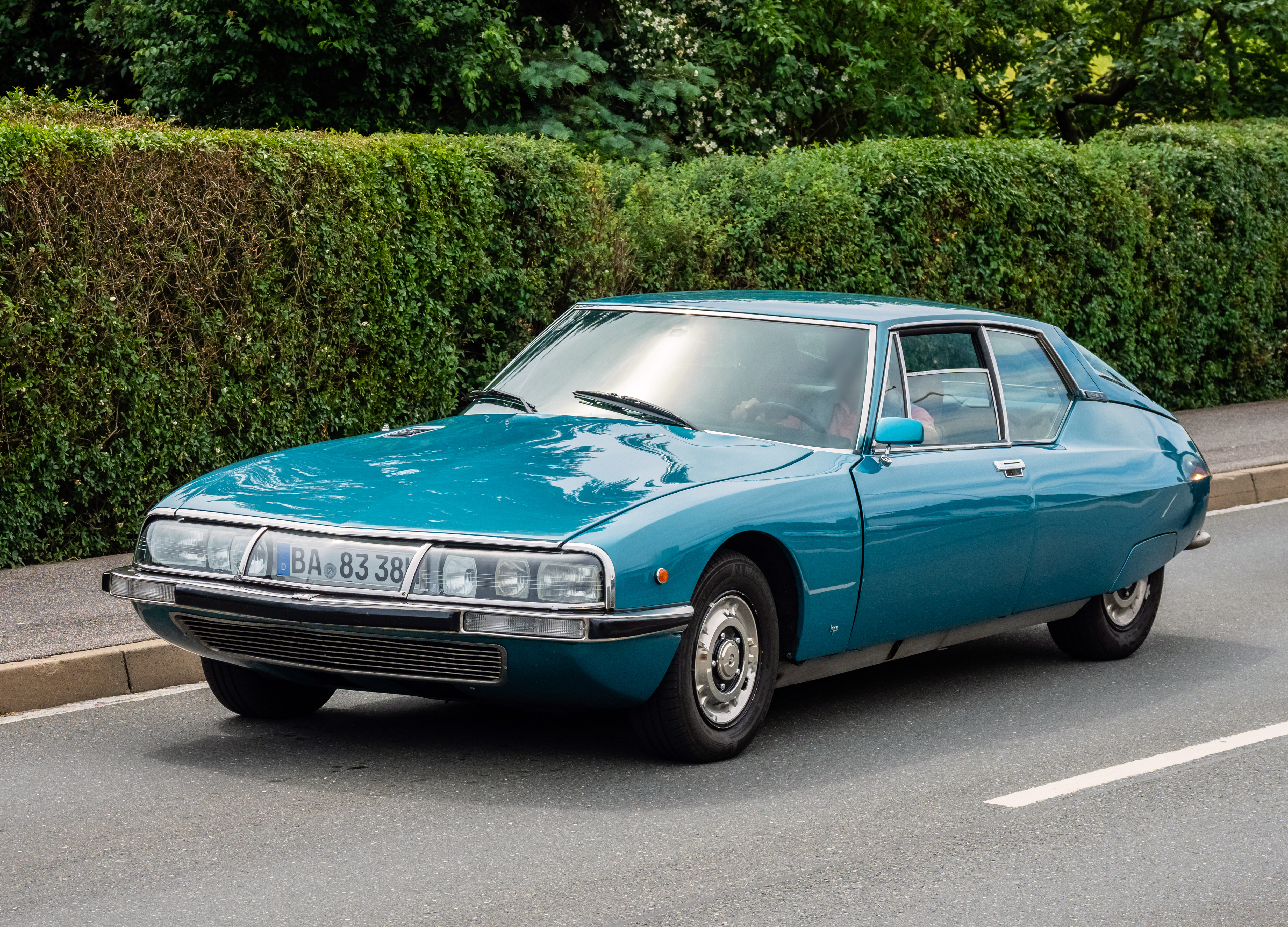 Citroën SM at the Oldtimer Meeting Ebern